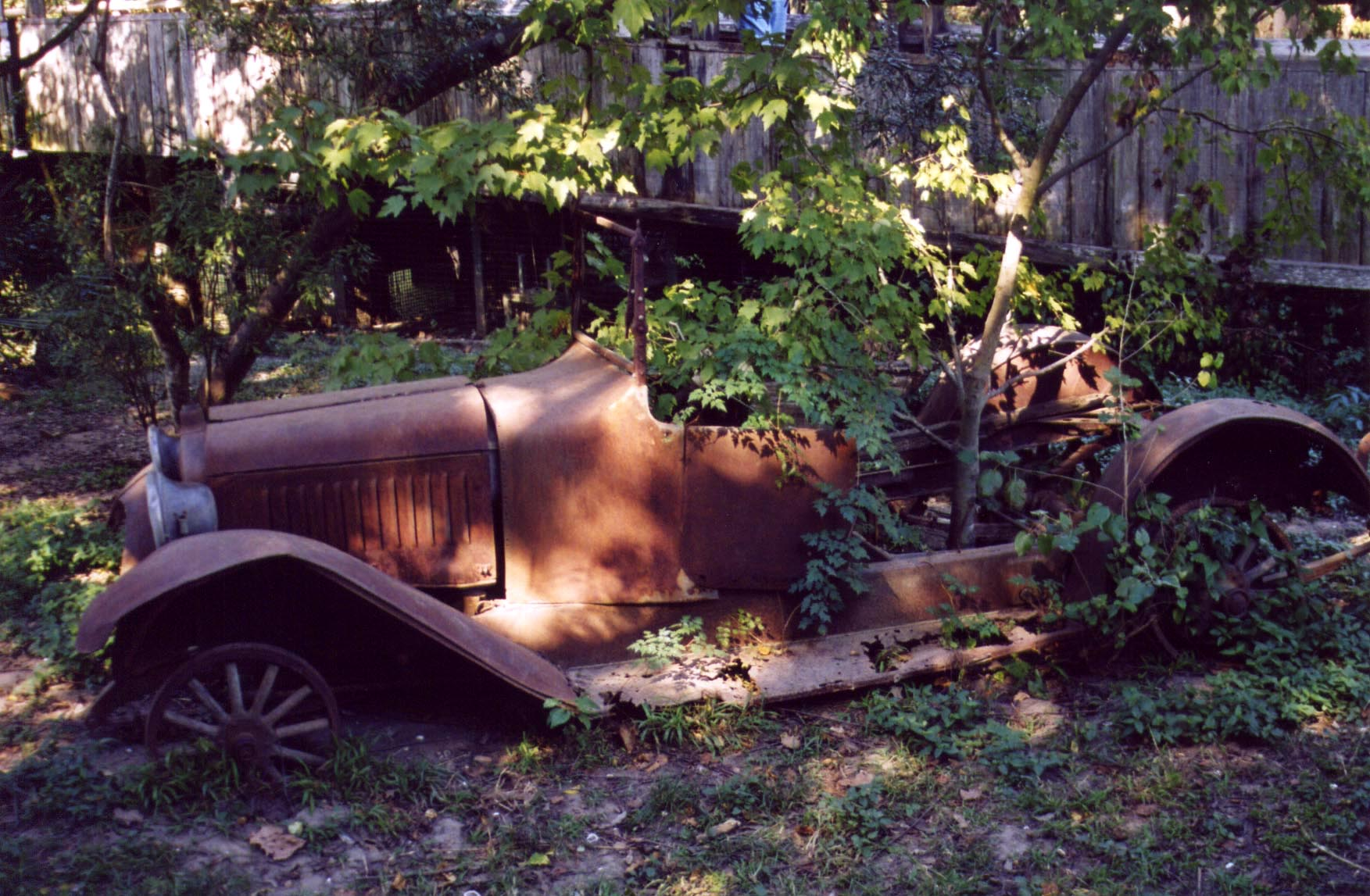 Rusted out 1920s REO automobile in the wetlands exibit, Audubon Zoo, New Orleans. Placed there in reference to the Great Flood of 1927. Getting caught in a flood in the swamps is the end of a car as we know it.